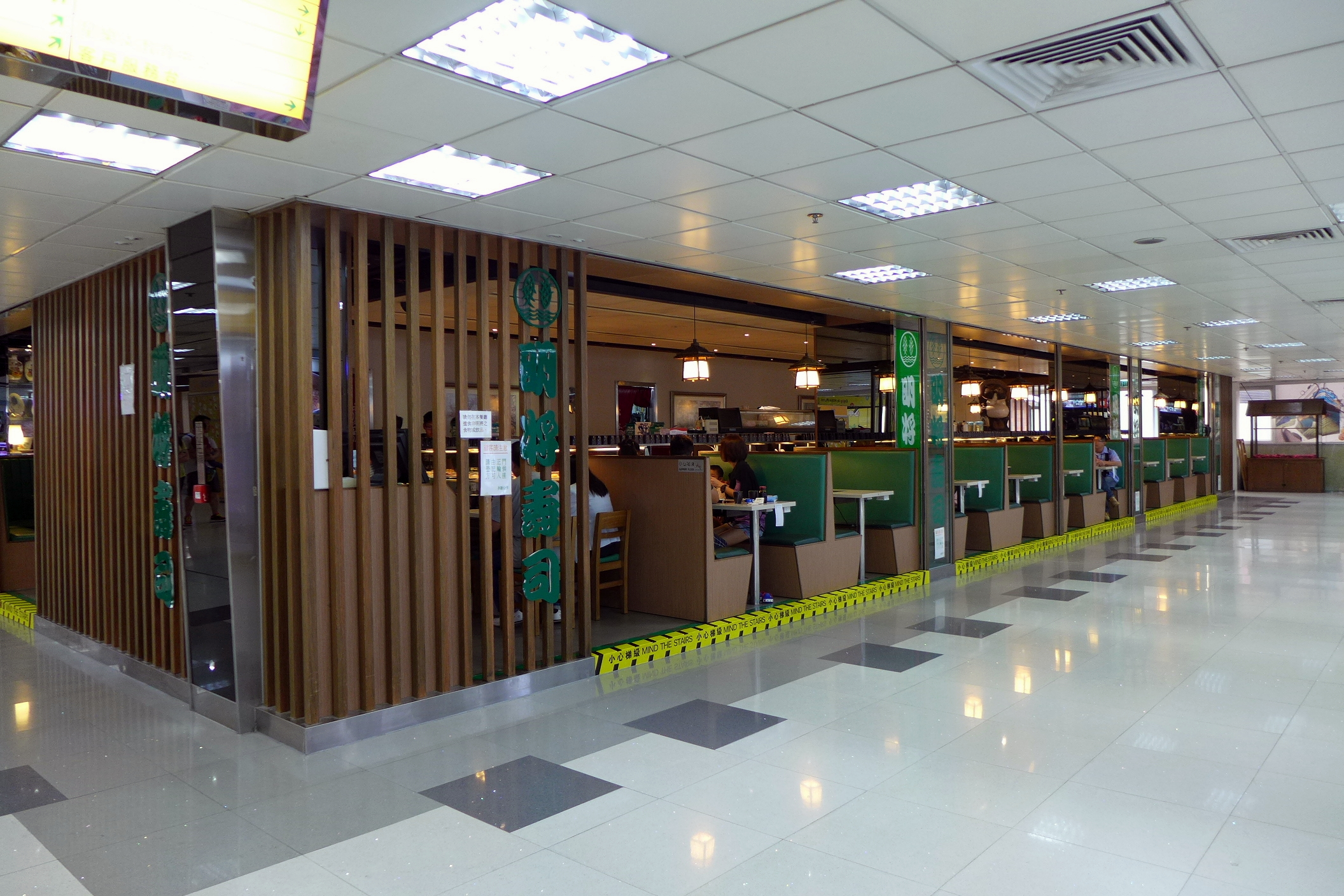 Ming General Japanese Sushi Restaurant in Hilton Centre